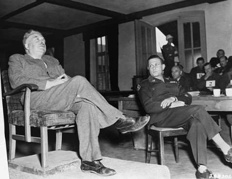 Dr. Edwin Ellenbogen on trial in front of an American military court for crimes he allegedly committed at Buchenwald. [Photograph #08584] Dr. Edwin Ellenbogen was a former American citizen who left the U.S and was captured by the Germans. Following his capture, he was sent to Buchenwald as a prisoner and worked there as a doctor. On March 4, 1947, American forces at Dachau charged 28 former camp personnel, 2 former kapos, and 1 former prisoner with participating in the operation of the Buchenwald concentration camp. Among those charged were former camp doctors and SS officers, including Hermann Pister, who was commandant of the camp from 1942 to 1945; Josias Erbprinz zu Waldeck-Pyrmont, who was SS-Obergruppenfuehrer and head of judicial matters; and Ilse Koch, a former Aufseherin and the wife of Karl Koch, who was Buchenwald commandant from 1937 to 1941. The trial began on April 11 and the sentences were handed down on August 14, 1947. Altogether, 22 of the defendants were sentenced to death by hanging, 5 were sentenced to life in prison, and 4 received shorter sentences. Pister was sentenced to death and died in an American prison.